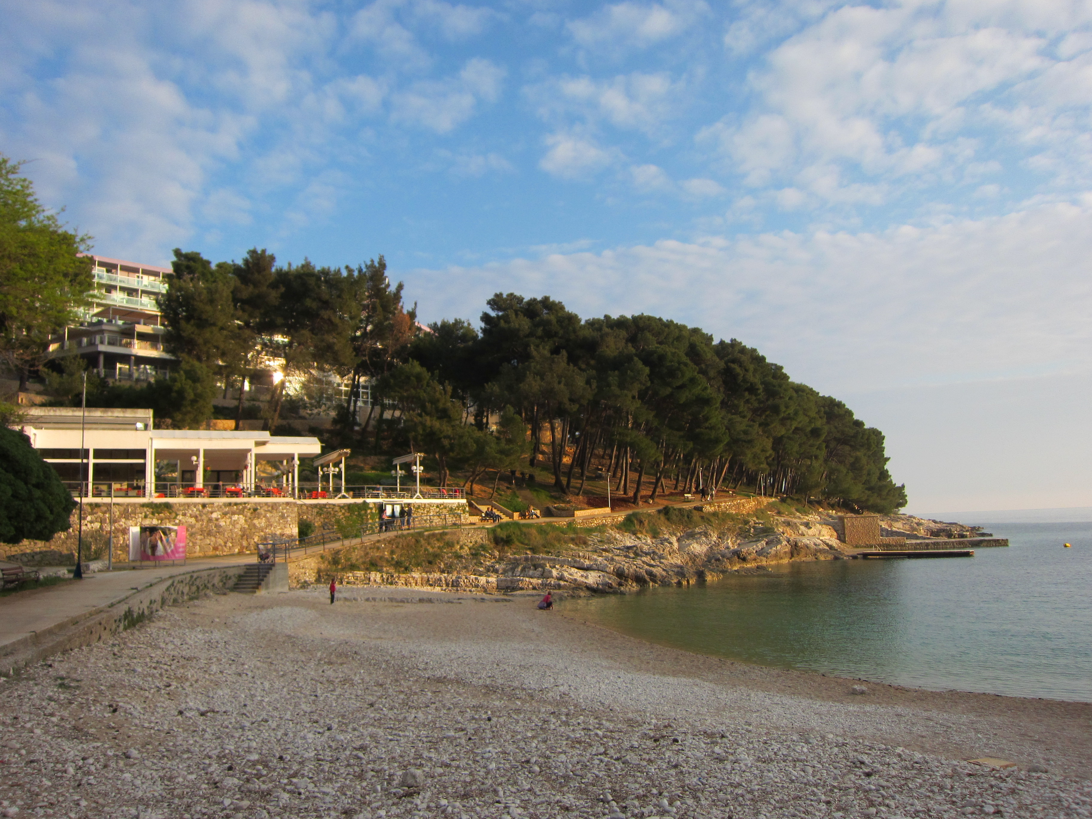 Hotel Aurora in Mali of Lošinj, Croatia.